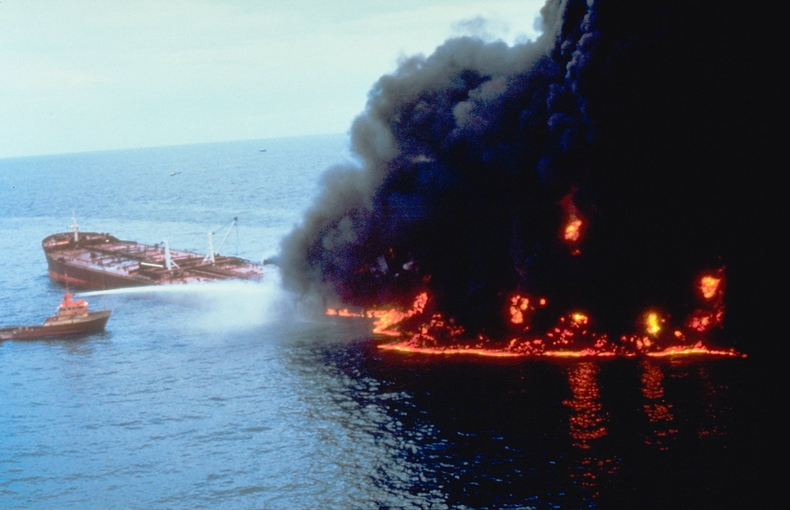 The tanker Megaborg oil spill occurred as the result of an accident during lightering operations with a subsequent fire. 5.1 million gallons of oil were released into the Gulf of Mexico.